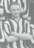 Archie Roe pictured in 1920.